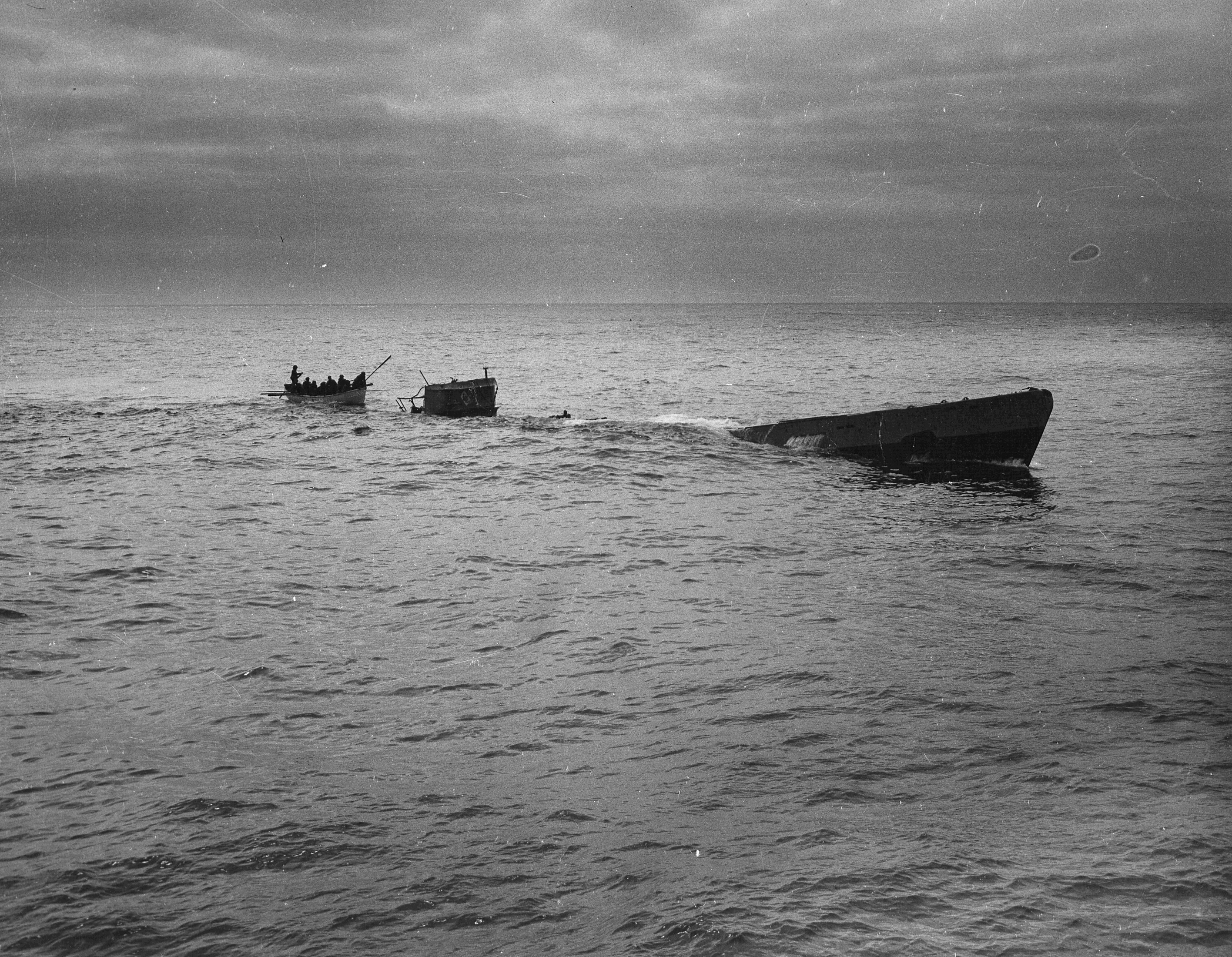 Coast Guardsmen from the cutter USCGC Spencer (WPG-36) picking up survivors from the U-Boat U-175 just before it made its final dive. Meanwhile Convoy HX-233 steamed on.